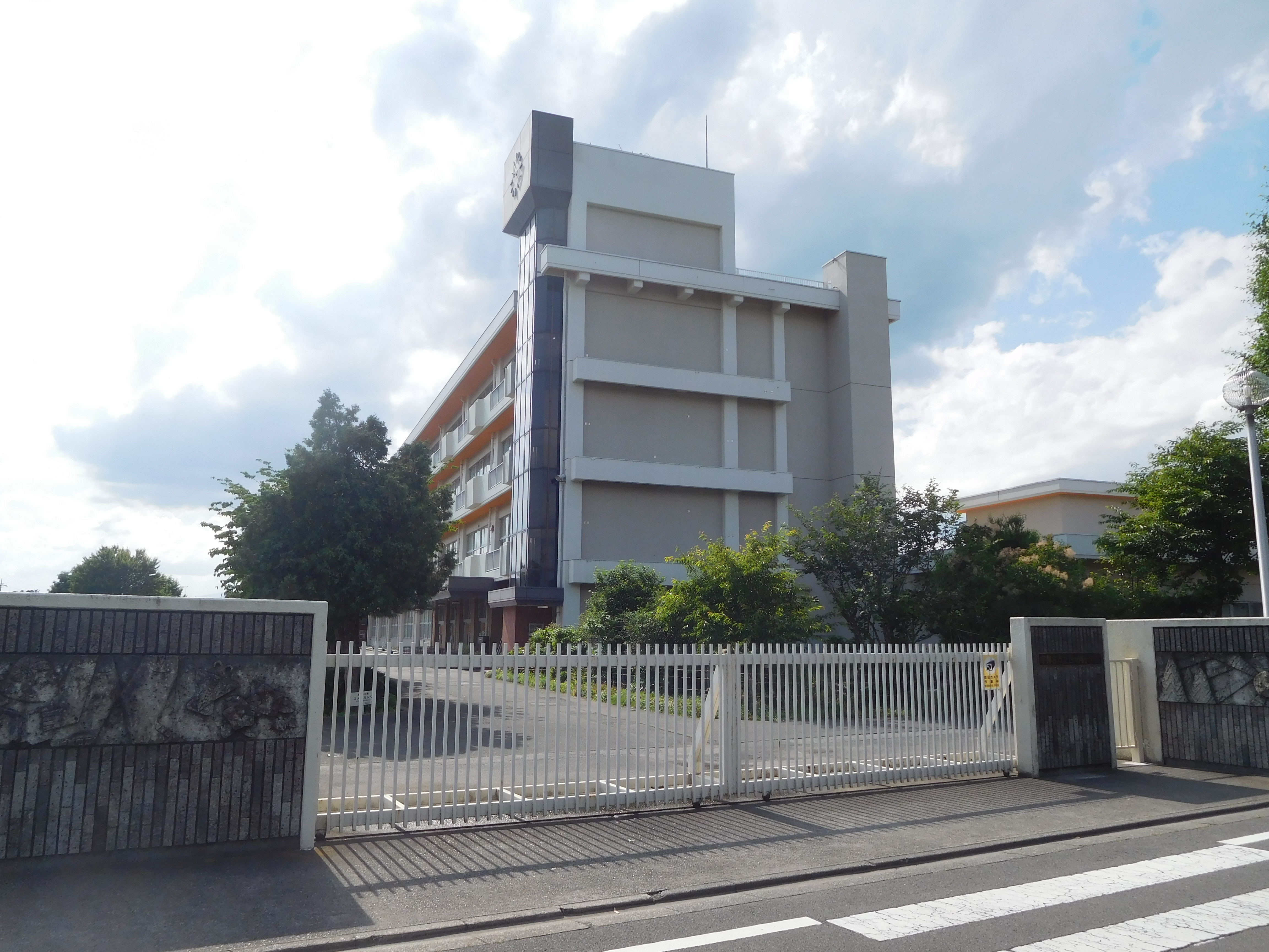 This is Nishigaoka elementary school in Utsunomiya, Tochigi, Japan.